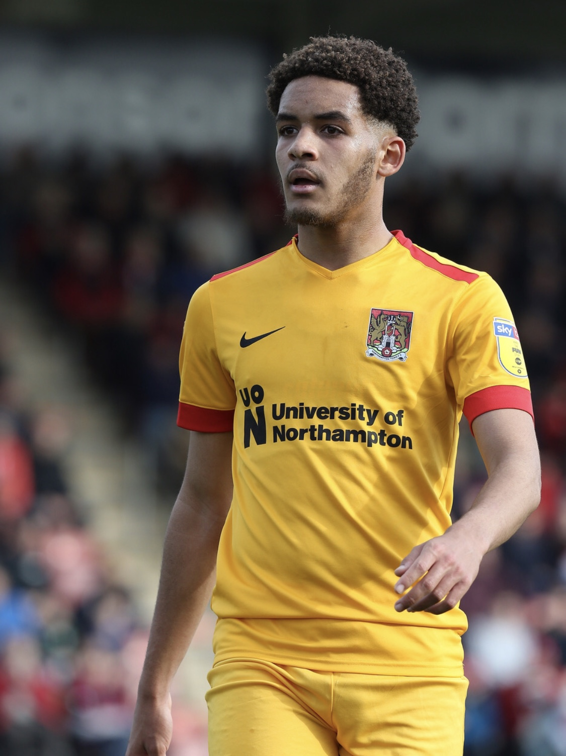 Jay Williams Vs Cheltenham in 2019